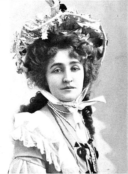 American actress, Grace George, in costume for her role in the play "Pretty Peggy" in 1903.